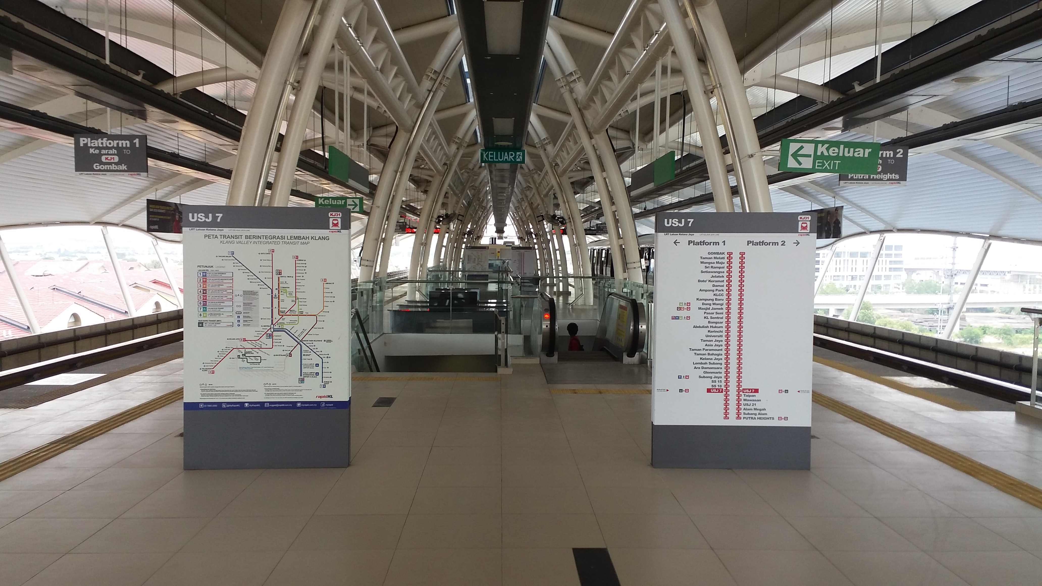 The platform for USJ7 station of Kelana Jaya Line